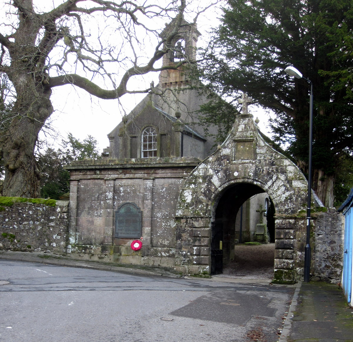 Kirkmichael Parish Church, Patna Road, South Ayrshire